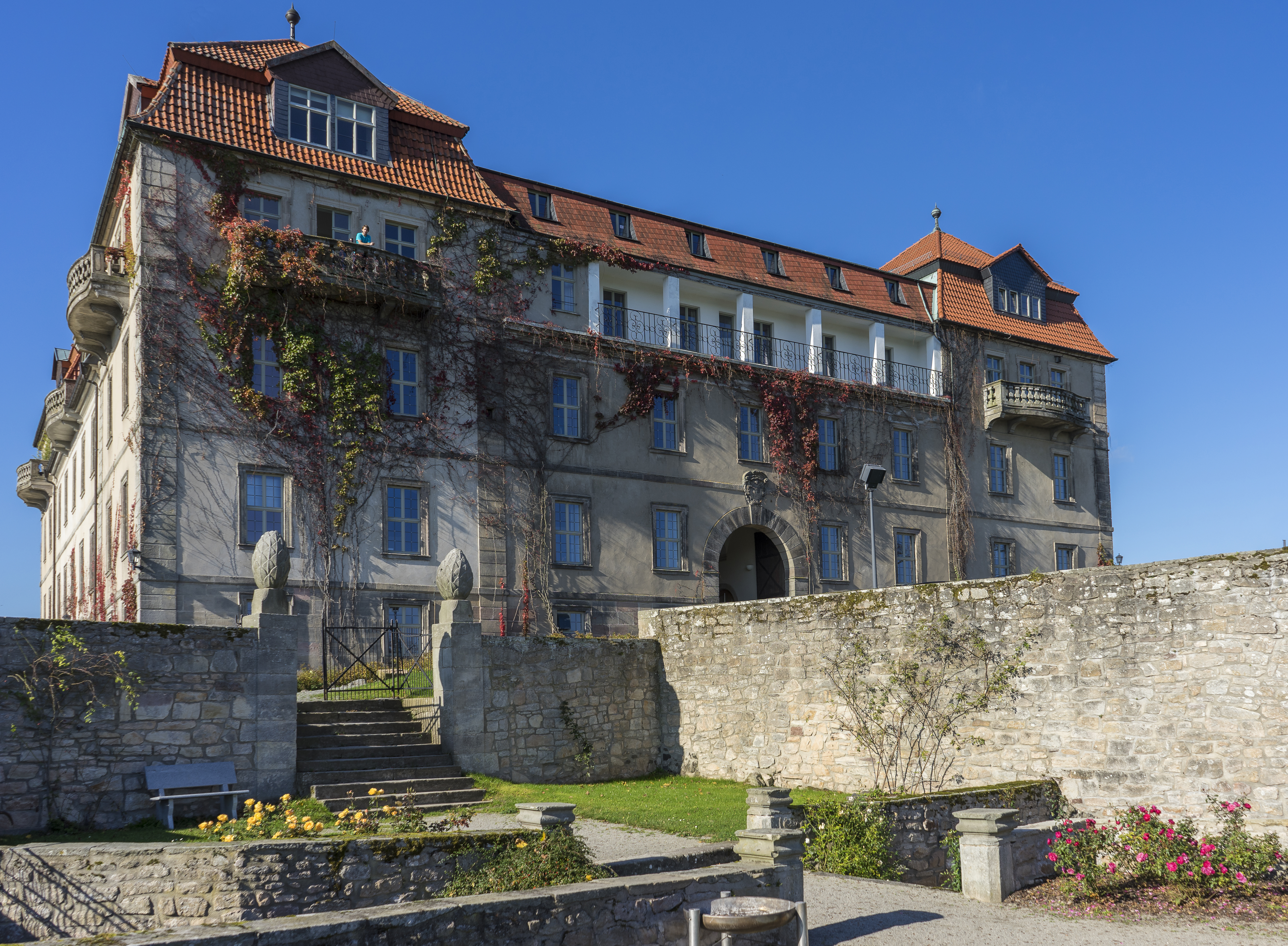 Castle Bieberstein today a boarding school (Eastside)